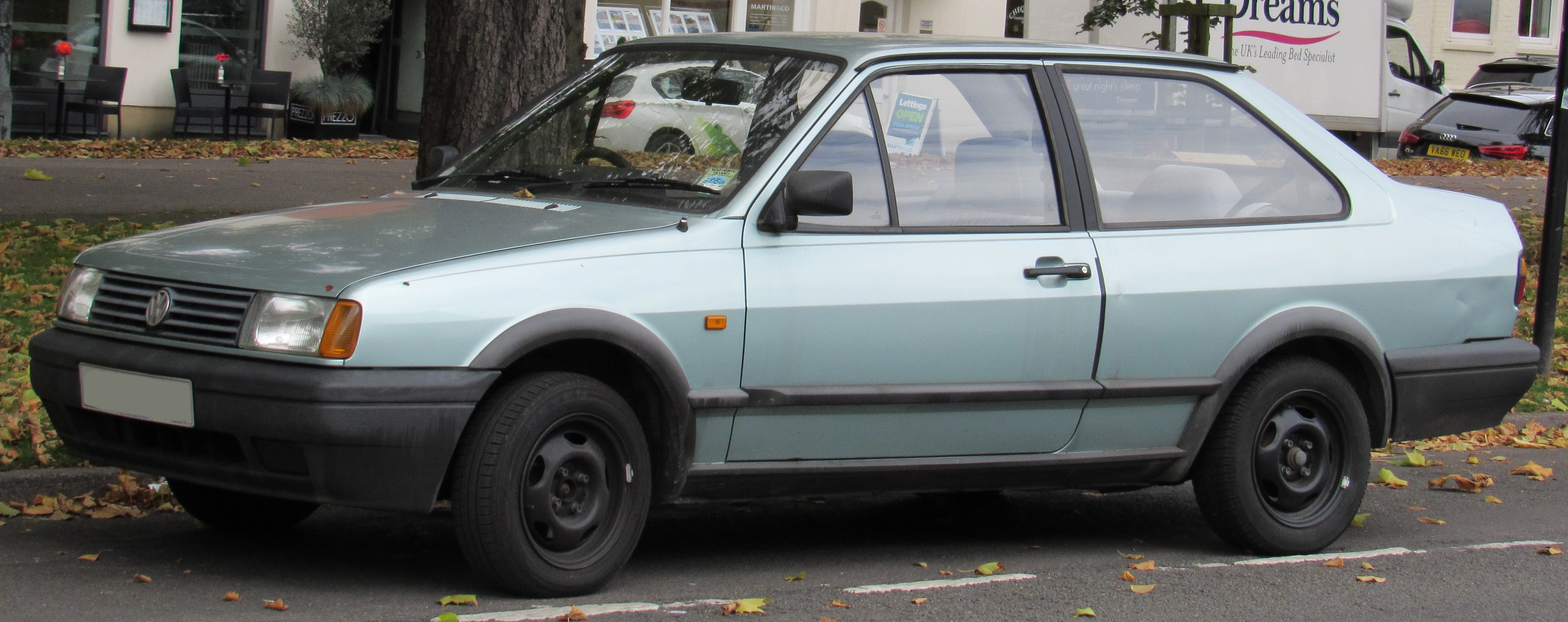 1992 Volkswagen Polo CL 1.0 Front Taken in Leamington Spa